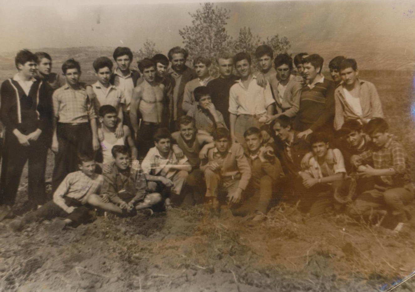 Pupils of teachers school in Pirot